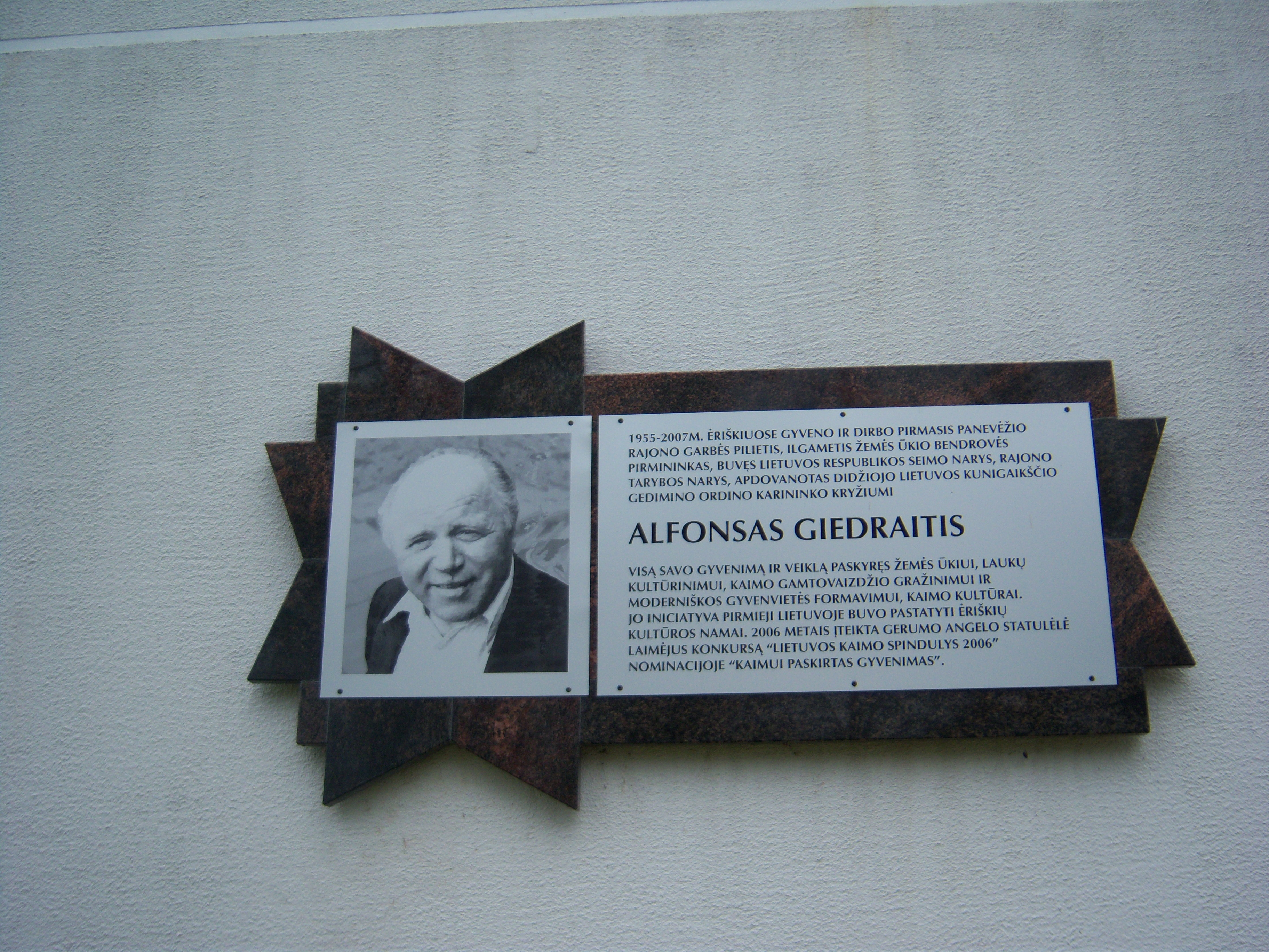 Memorial plaque in Ėriškiai, Panevėžys District, Lithuania